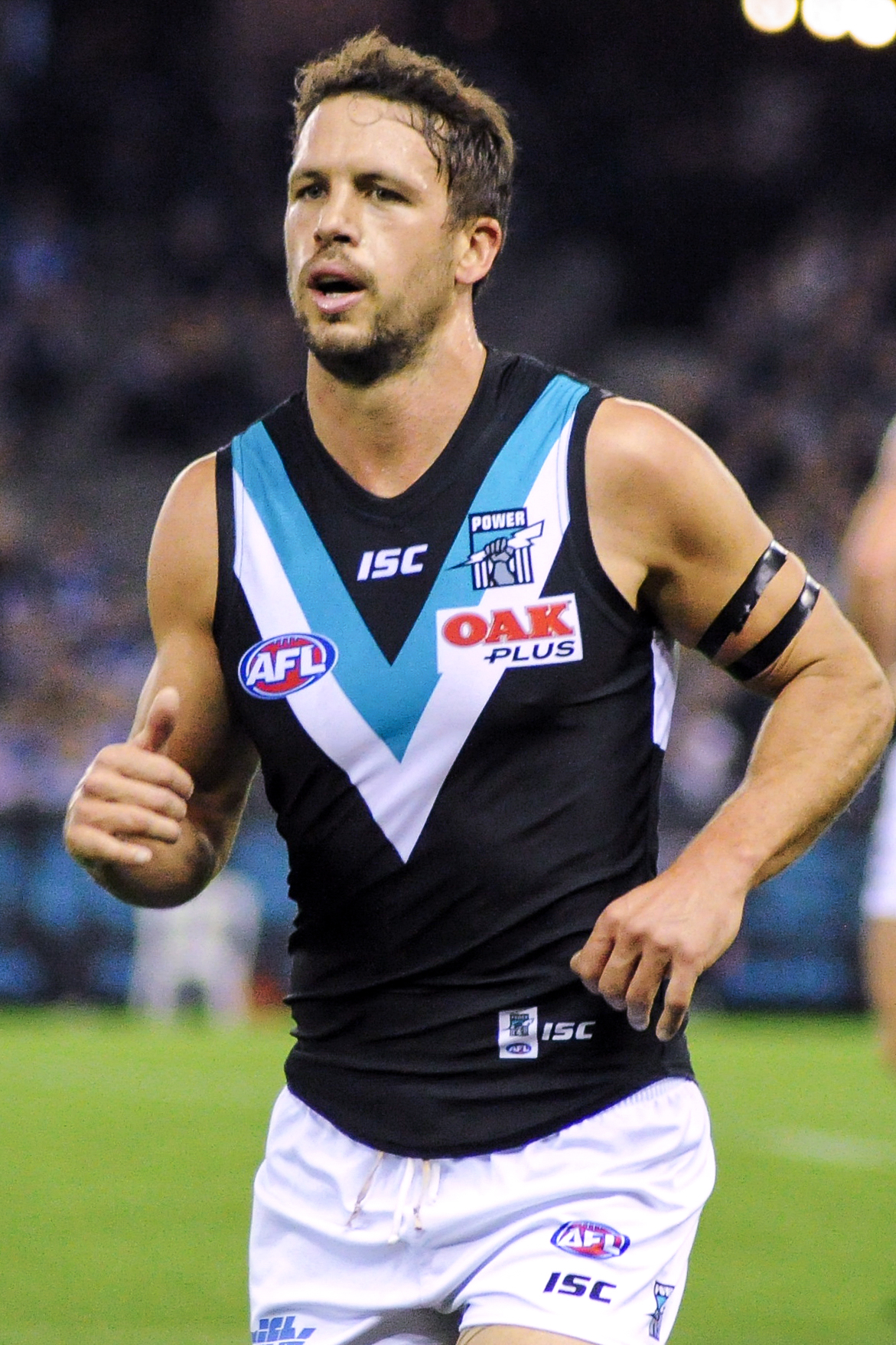 Travis Boak during the AFL round six match between North Melbourne and Port Adelaide on Saturday, 28 April 2018 at Etihad Stadium in Melbourne, Victoria.